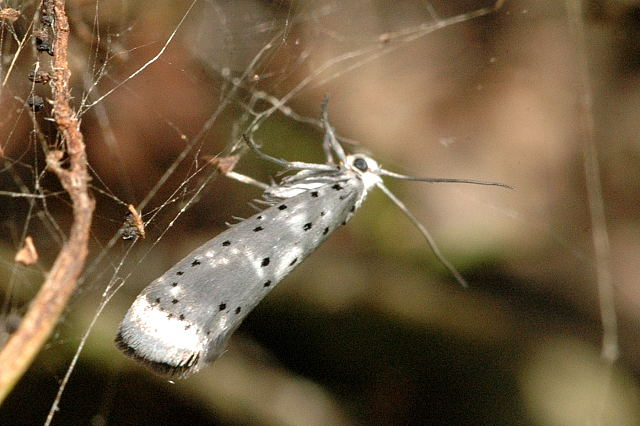 Picture taken in Commanster, Belgian High Ardennes . Species: Yponomeuta padella